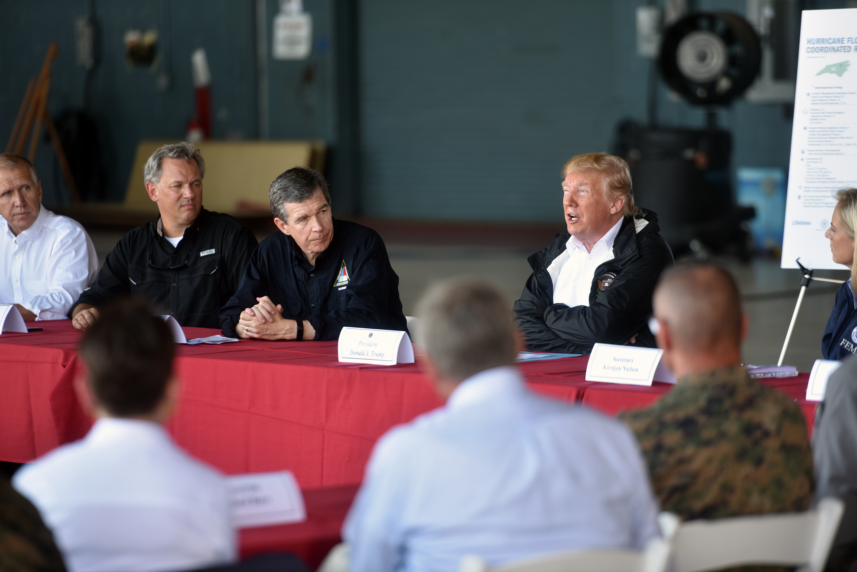 President Donald Trump talks with local, state and federal leaders during a visit following Hurricane Florence to Marine Corps Air Station Cherry Point, Havelock, N.C., Sept. 19, 2018. North Carolina Gov. Roy Cooper is seated to the left of the president. (U.S. Army National Guard photo by Sgt. 1st Class Jim Greenhill)